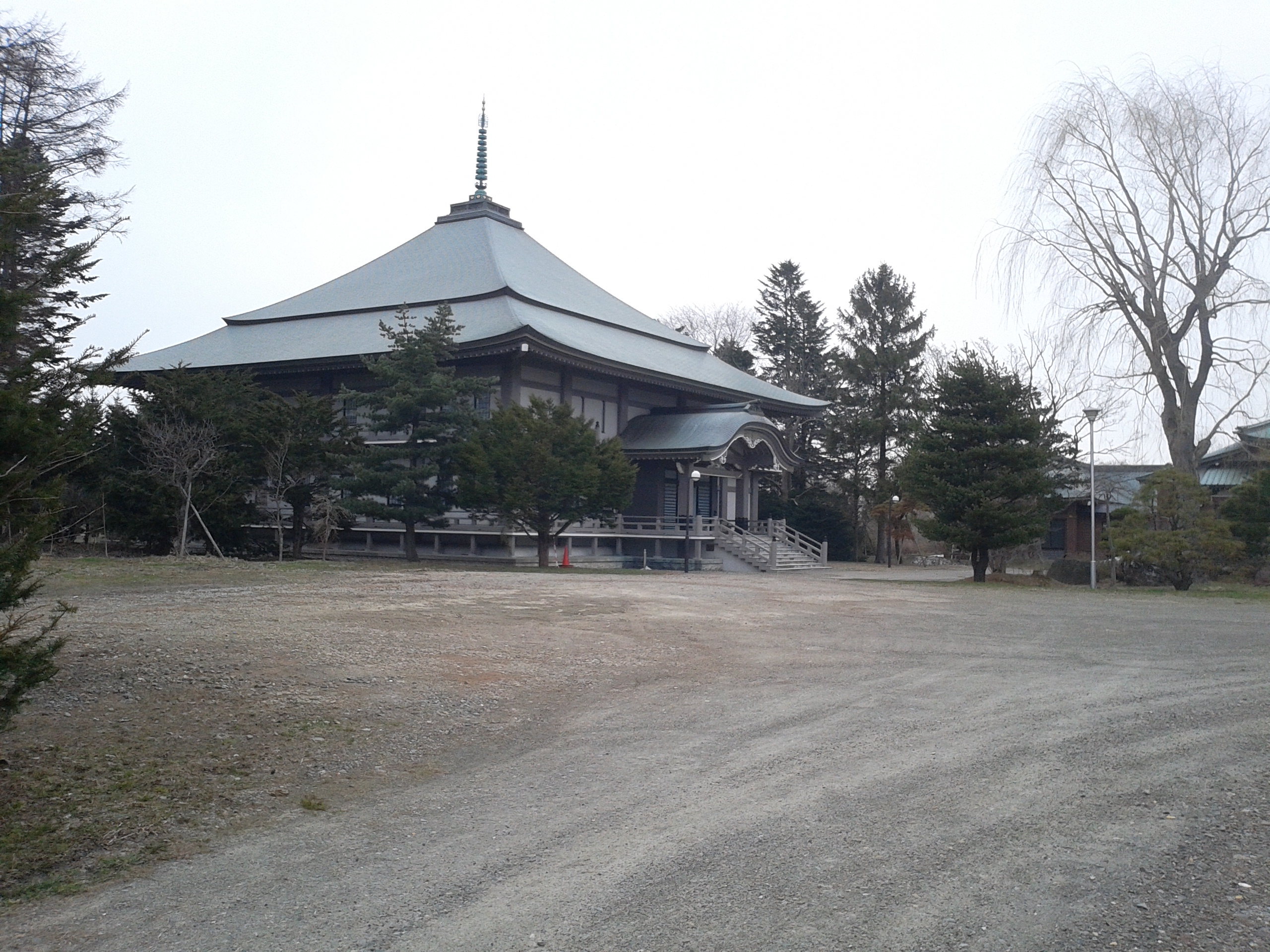 Ten'yuji Buddhist Temple in Eniwa, Hokkaido.